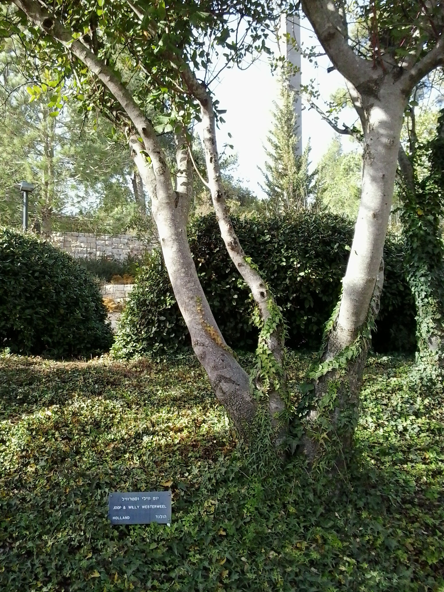 The tree planted at Yad Vashem honoring Righteous Among the Nations Joop and Willy Westerweel